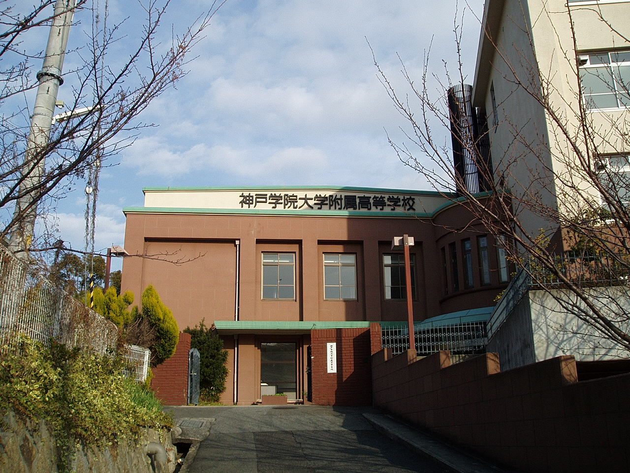 Former main entrance to Kobe Gakuin University High School located in Hyogo-ku, Kobe, Hyogo, Japan. In April 2016 the school was moved to Chuo-ku, Kobe (Port Island).